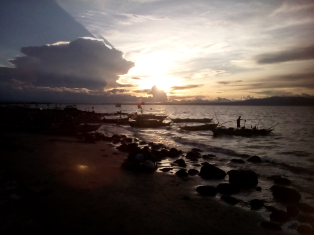 a beautiful view